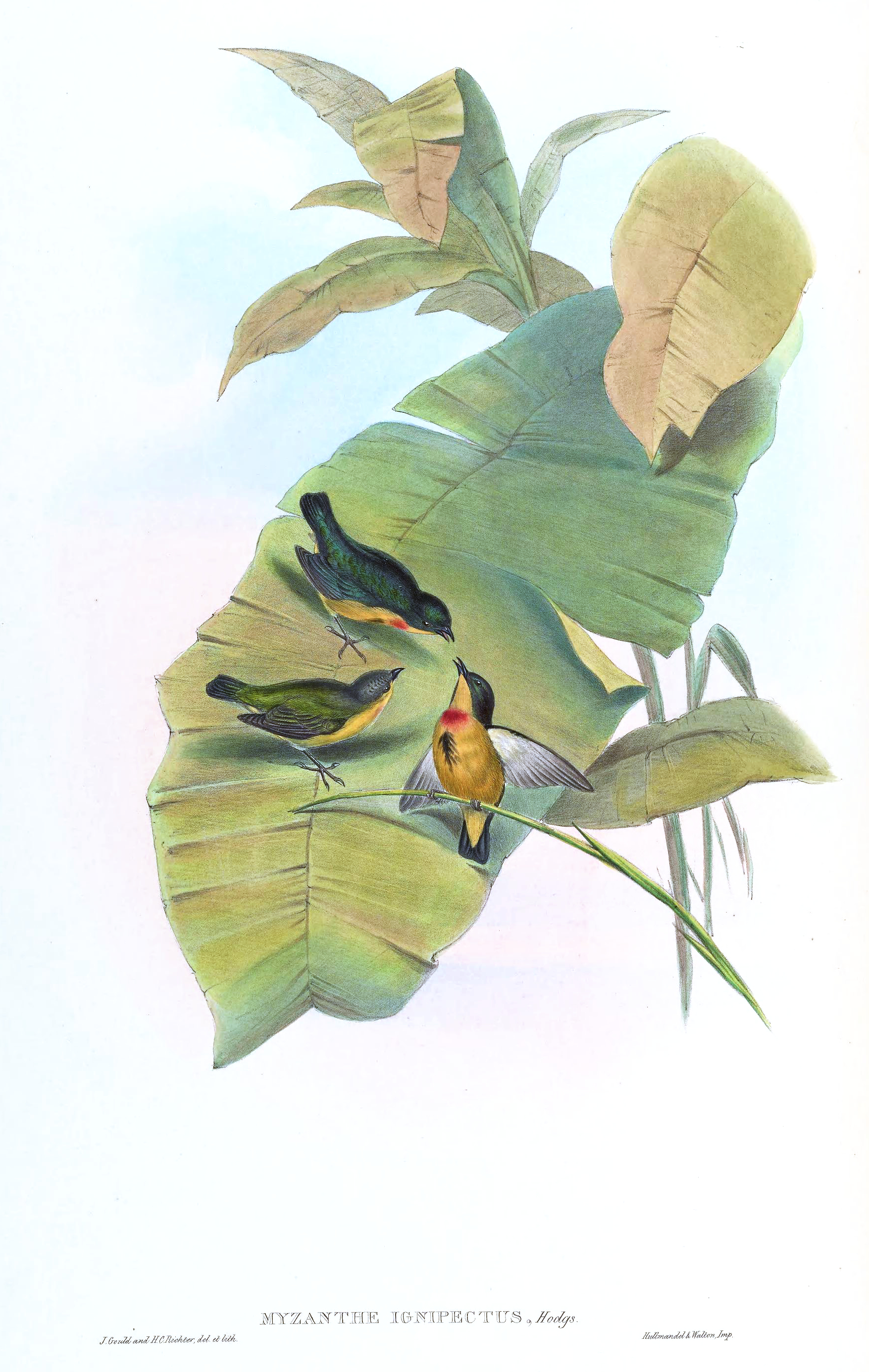 Lithograph of Myzanthe ignipectus (=Dicaeum ignipectus)